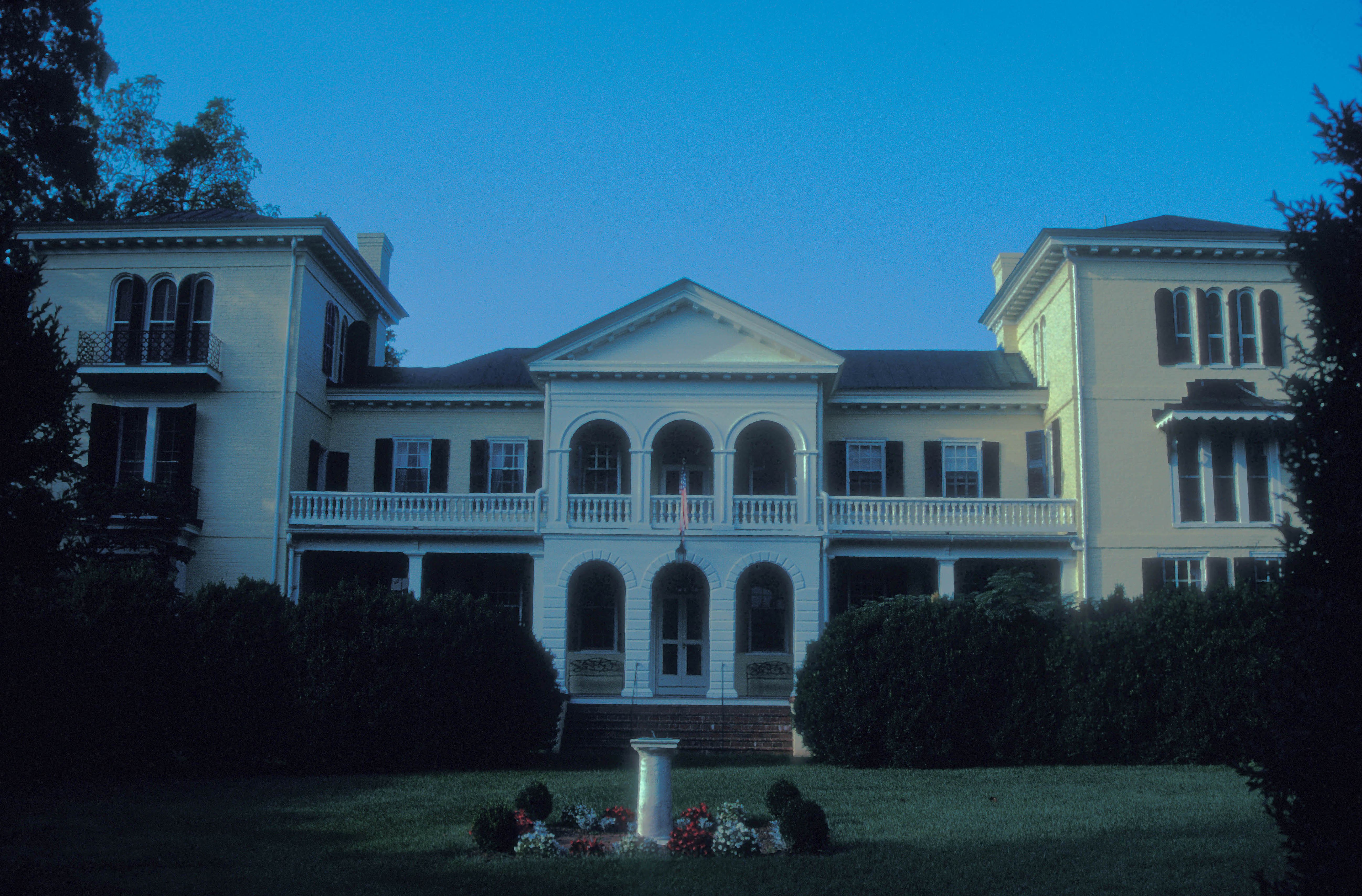 EARLY 19TH C. FEDERAL AND ITALIAN VILLA PAINTED BRICK HOME OF NEWSPAPER PUBLISHER ELIJAH FLETCHER; NOW SERVES AS PRESIDENT’S HOME OF SWEET BRIAR COLLEGE